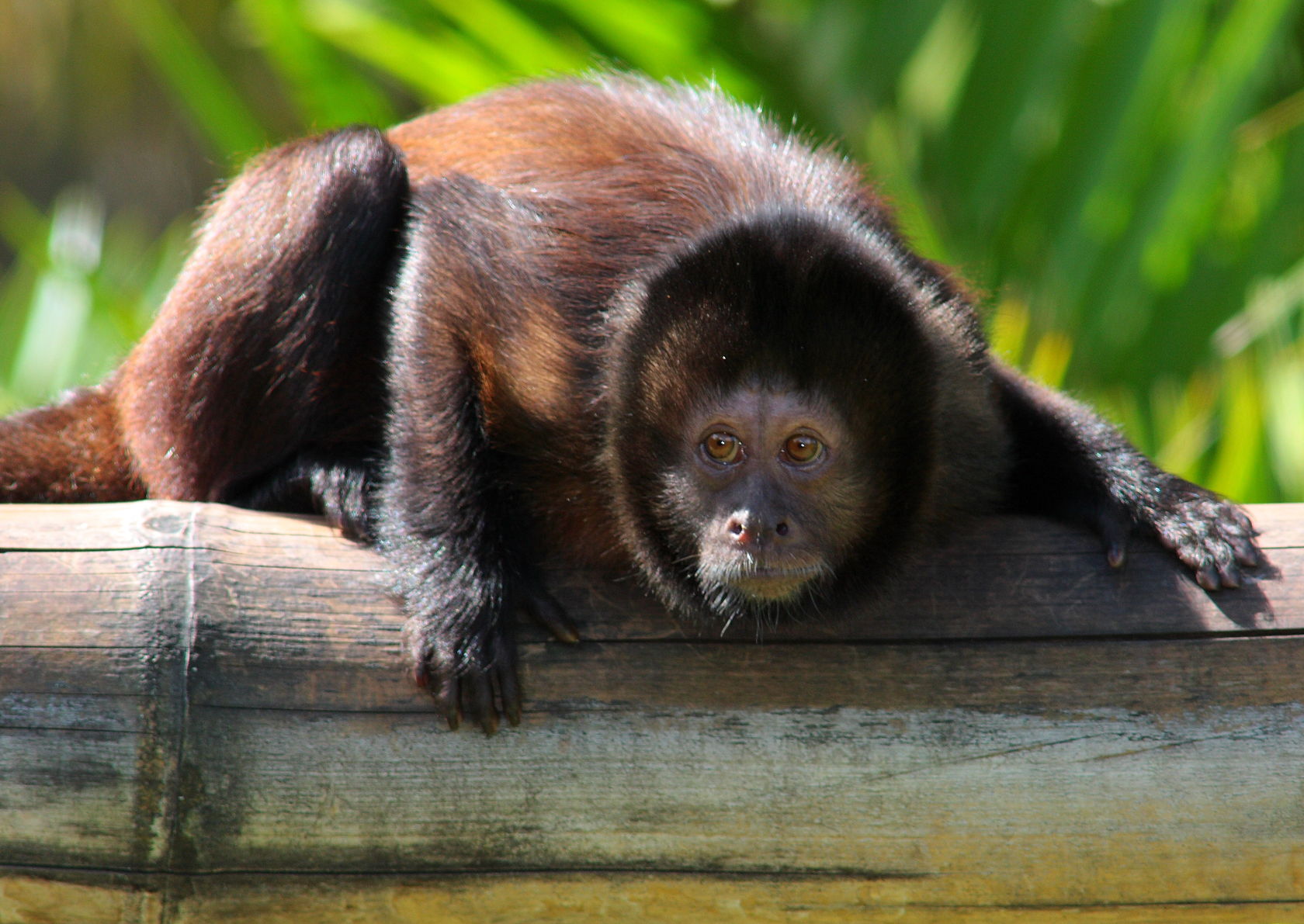 Crested capuchin monkey (Sapajus robustus) in Palm Beach Zoo, Miami, USA.